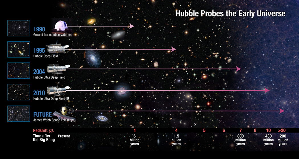 NASA chart depicting evolution of detecting the early universe, from ground-based space telescopes to HST and the future JWST.